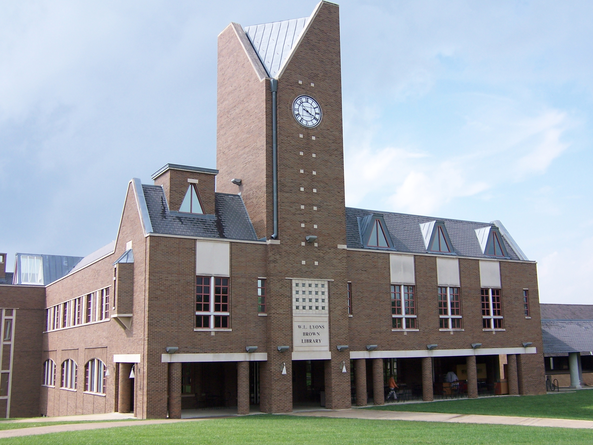 Photo of Bellarmine University's W. L. Lyons Brown Library, home of the Thomas Merton Center